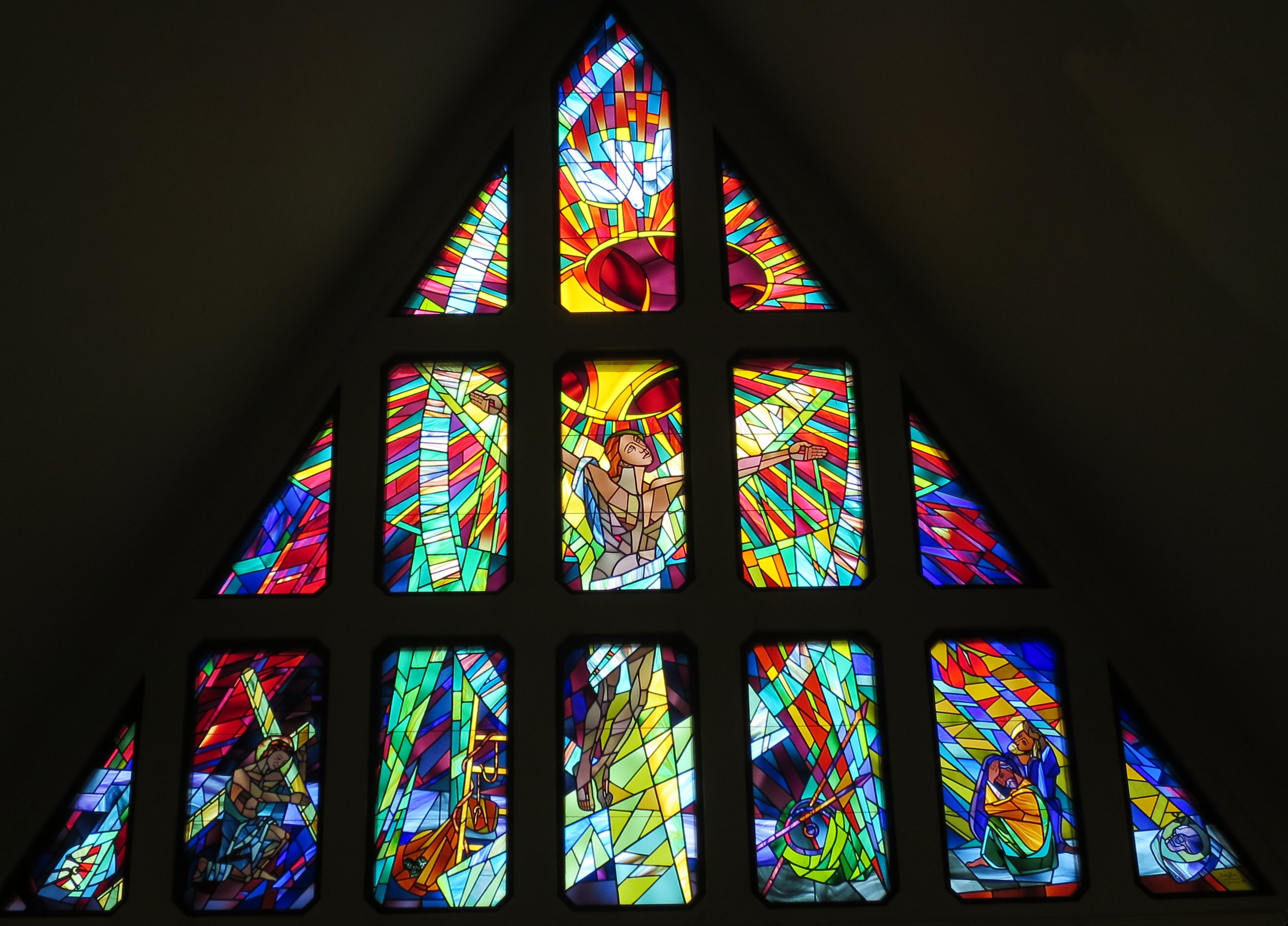 Stained glass window, Hammerfest Church